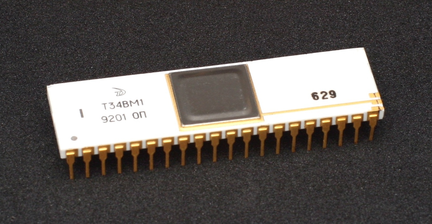 CPU T34VM1 (= Zilog Z80). Engineering sample.